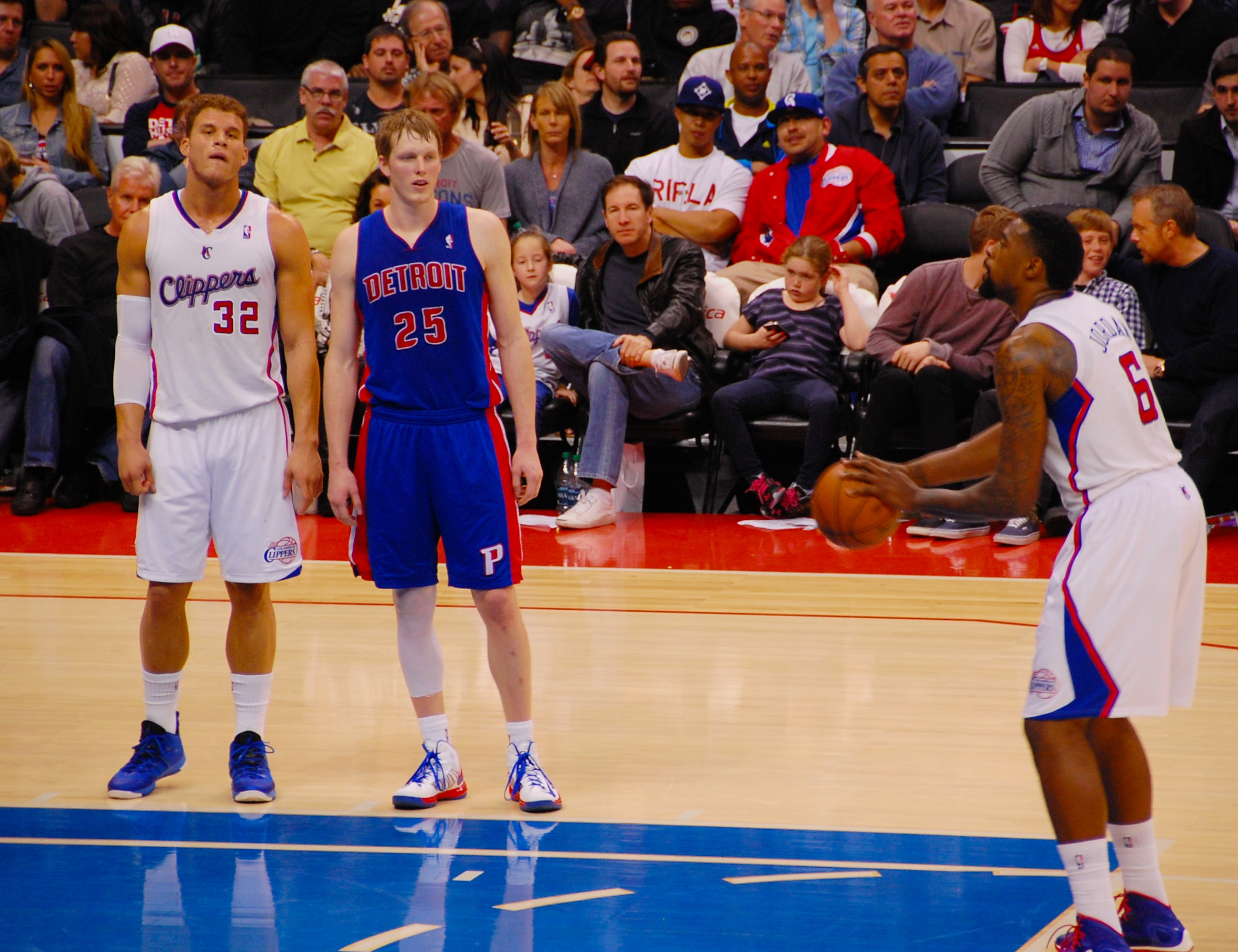 Los Angeles Clippers' DeAndre Jordan prepares to shoot a free throw as Clippers' Blake Griffin and Detroit Pistons's Kyle Singler look on.